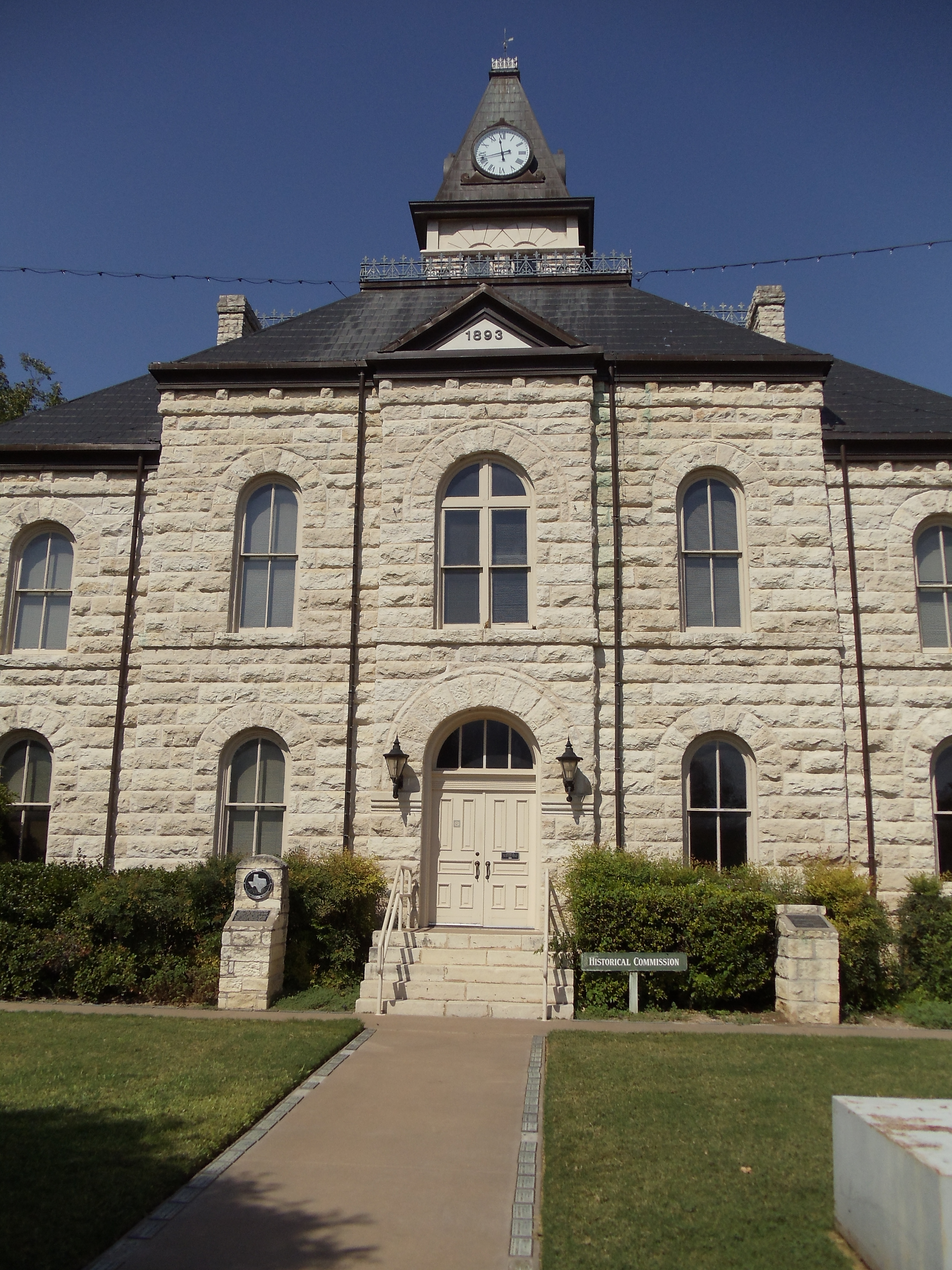 Somervell County Courthouse